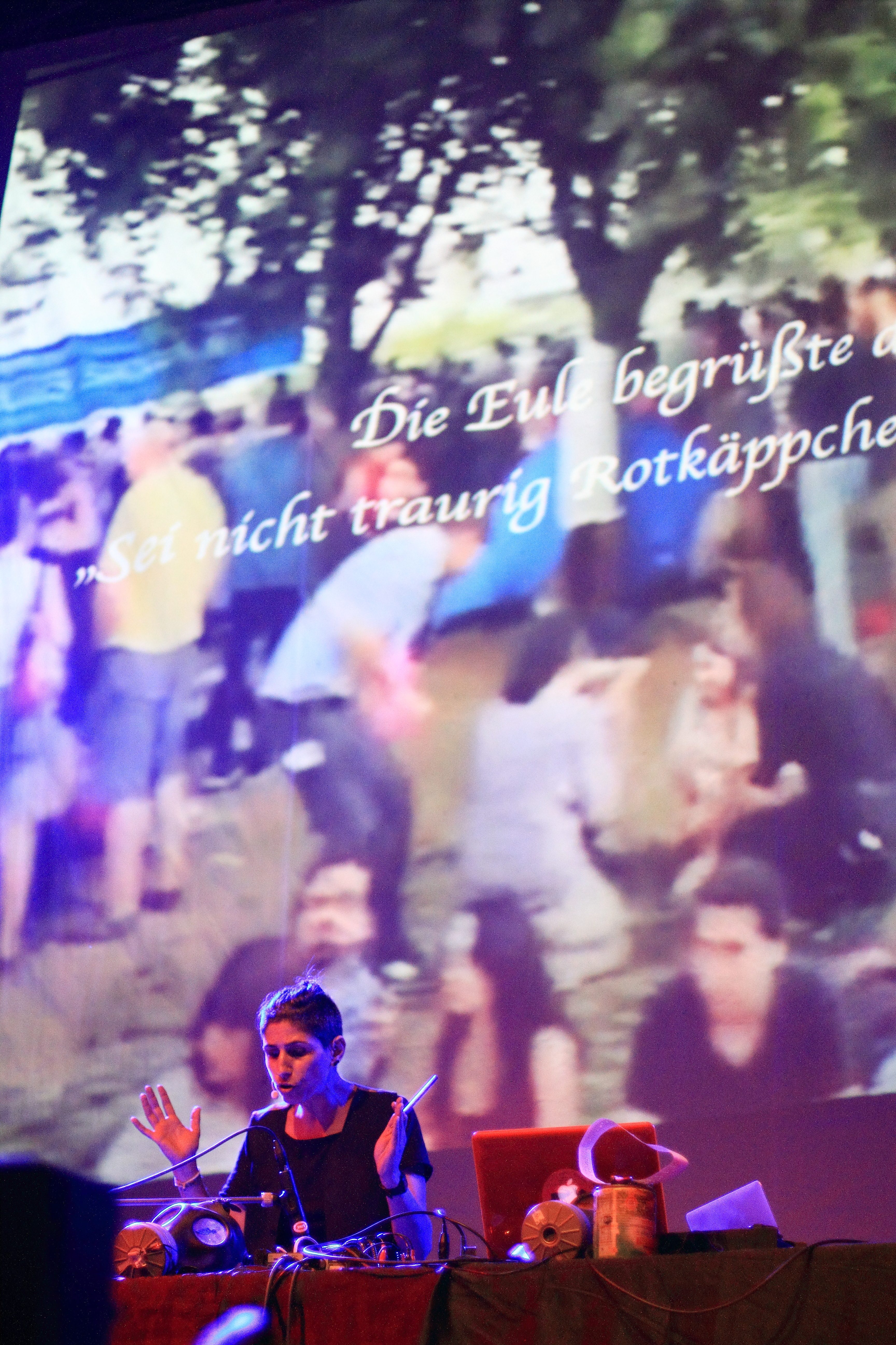 DJ Ipek performes Soundscapes of Resistance - her german-turkish version of Little Red Riding Hood.